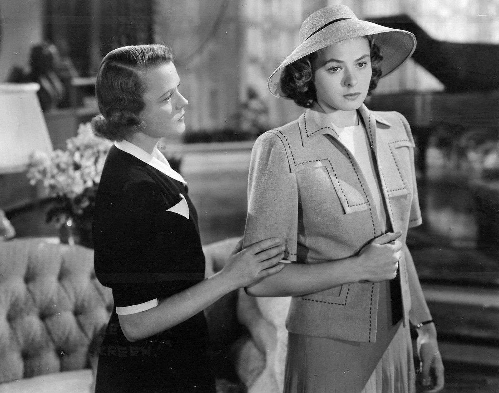 Edna Best & Ingrid Bergman in the American remake romantic film Intermezzo (1939). No copyright notice.